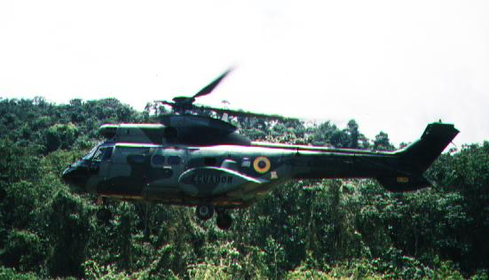 This picture was taken by my father, general Paco Moncayo when he was the main leader of the Ecuadorian Army during the "guerra del cenepa"